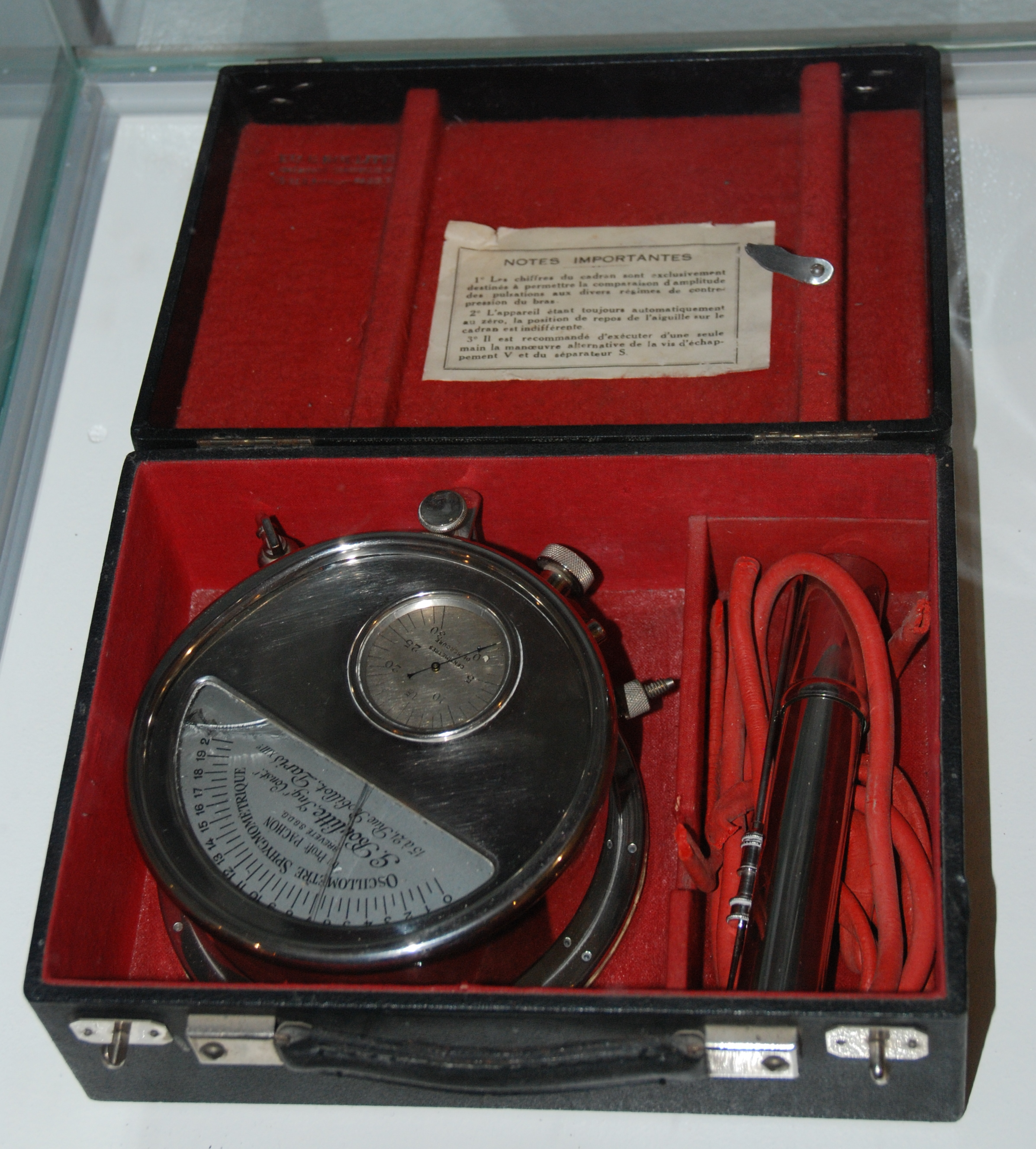 French sphygmomanometer used during World War I; the Verdun Memorial, Fleury-devant-Douaumont, France